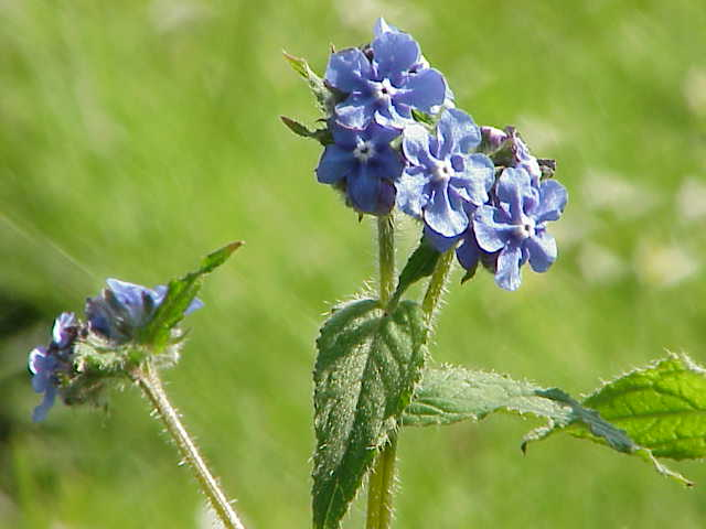 Species: Pentaglottis sempervirens Family: Boraginaceae Image No. 1